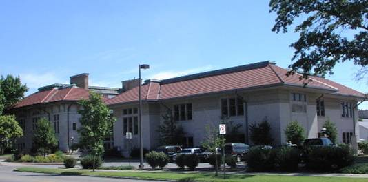 Outside photo of the Pittsburg Public Library, located at the intersection of Fourth and Walnut Streets in Pittsburg, Kansas, United States. Built in 1910, the Art Nouveau library is listed on the National Register of Historic Places.